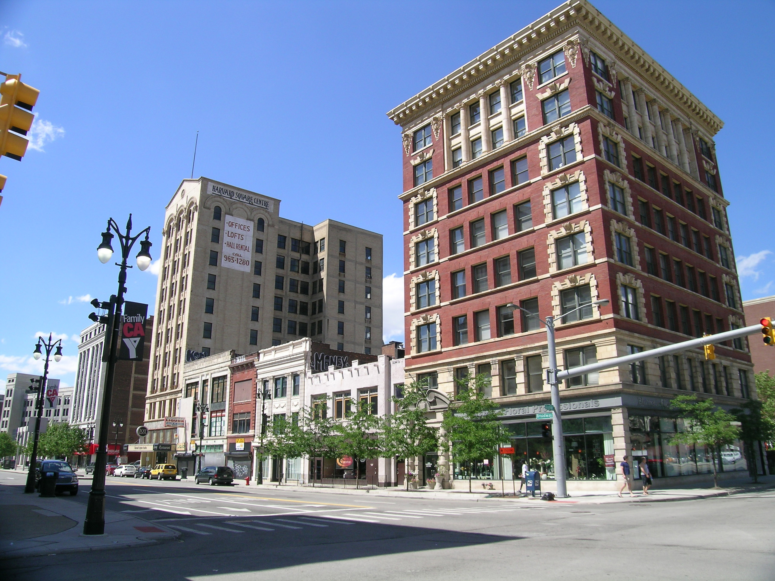 Broadway Avenue, east side, from Gratiot — Detroit, Michigan. Historic district contributing properties in the Broadway Avenue Historic District